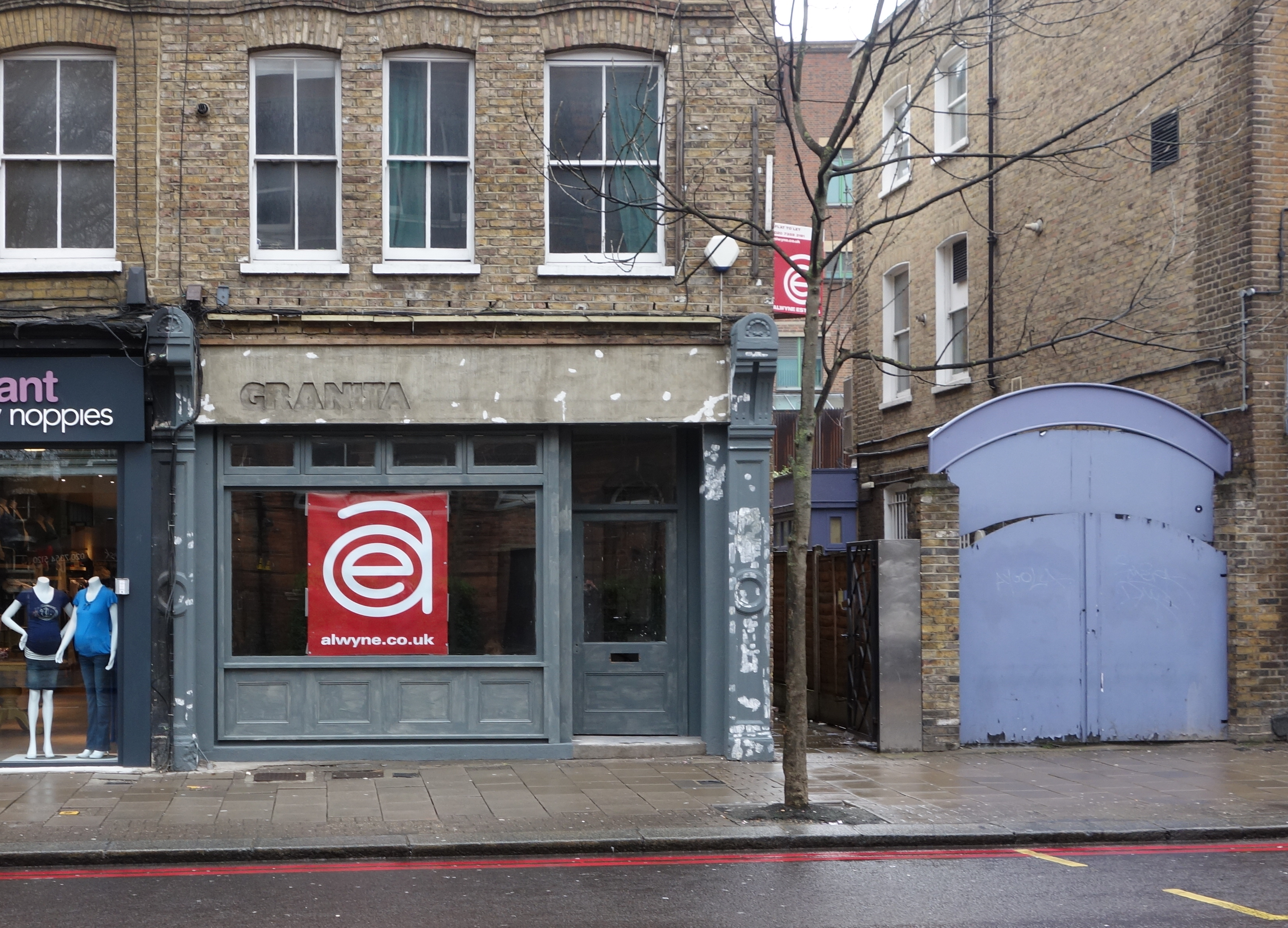 In early 2013, with the building available for rent, the signage of the previous occupants was removed to reveal Granita's facade.